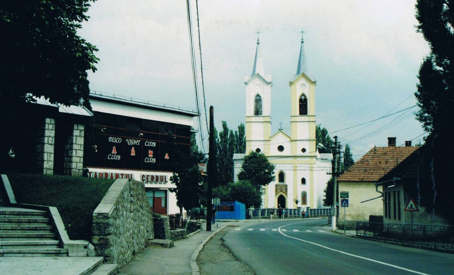 Topliţa, Harghita County, Romania. A church.